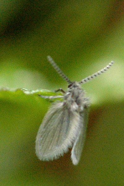 Picture taken in Commanster, Belgian High Ardennes . Species: Psychoda grisescens